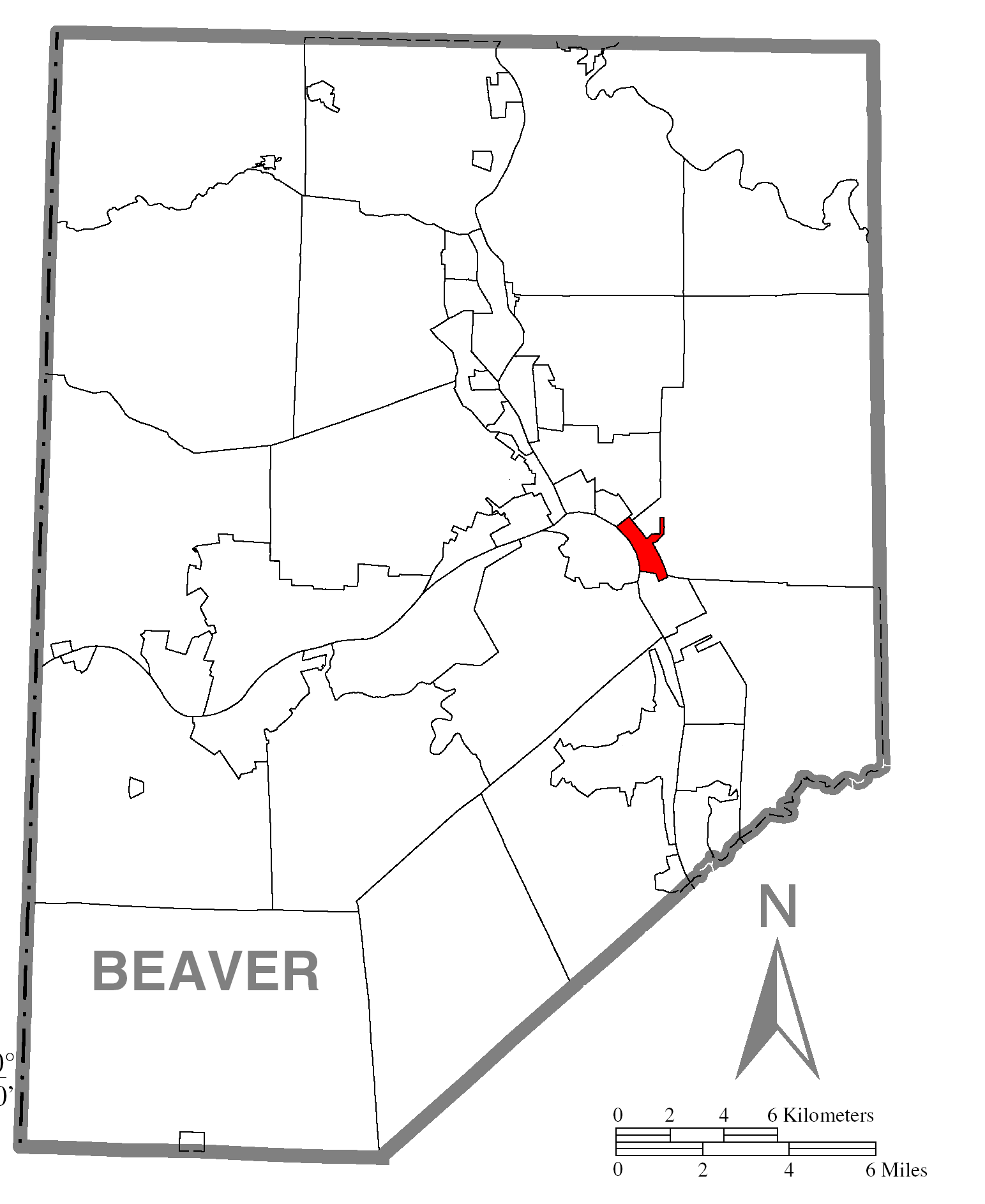 A map of Beaver County showing Freedom, Pennsylvania (alternate) highlighted on the map.